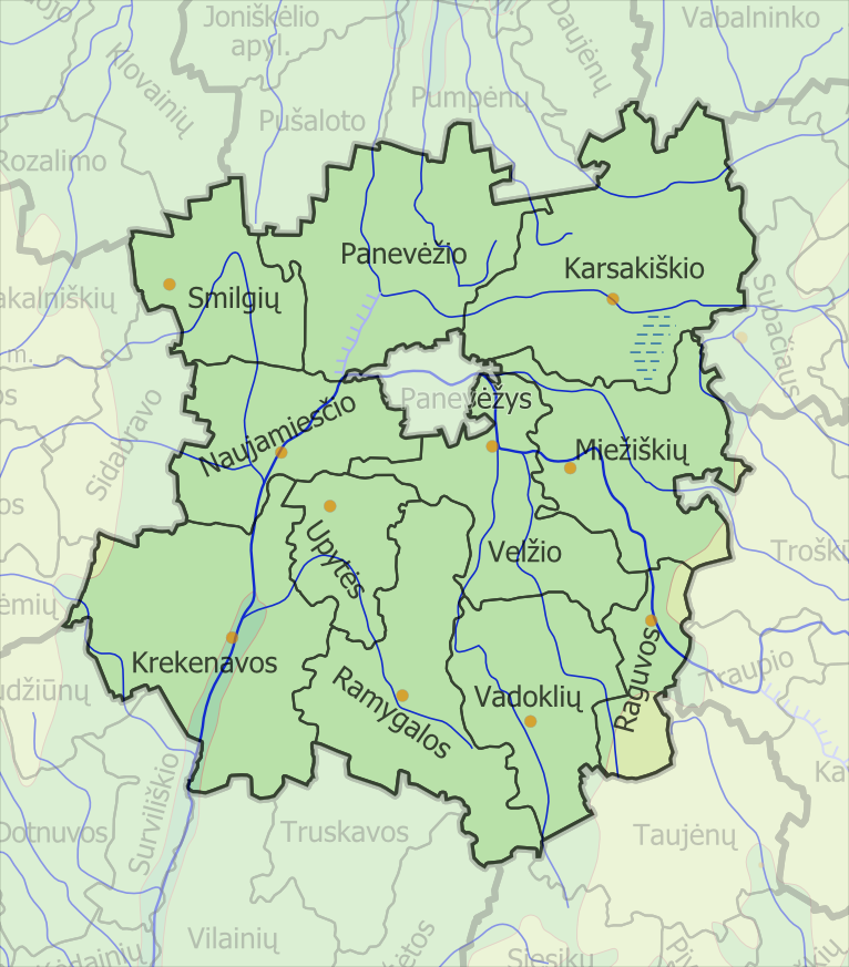 Subdivision of Panevėžys district municipality in Lithuania